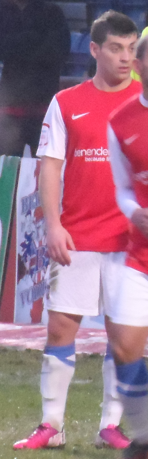 David McDaid. Image cropped from original at flickr.